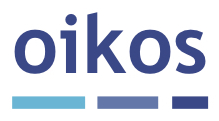 The official logo of the oikos International organisation